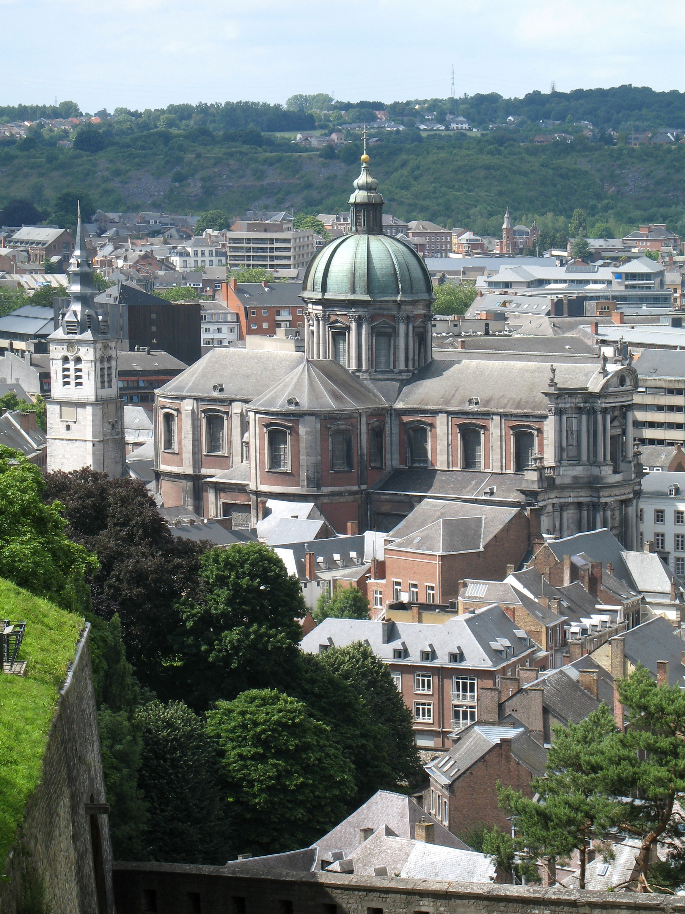 Namur (Belgium): St Aubain cathedral